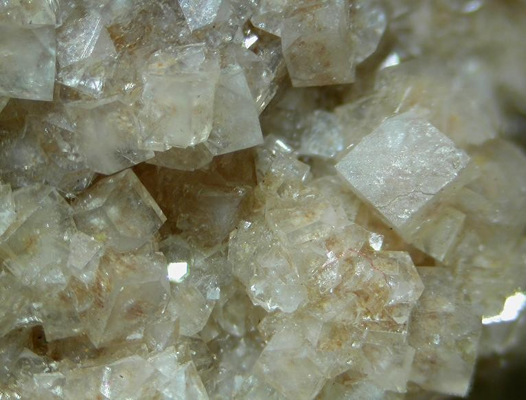 Woodhouseite Locality: Champion Mine (White Mountain Mine), White Mountain, Laws, White Mts, Mono County, California, USA (Locality at ) Field of view 5 mm. Specimen and photo Leon Hupperichs.